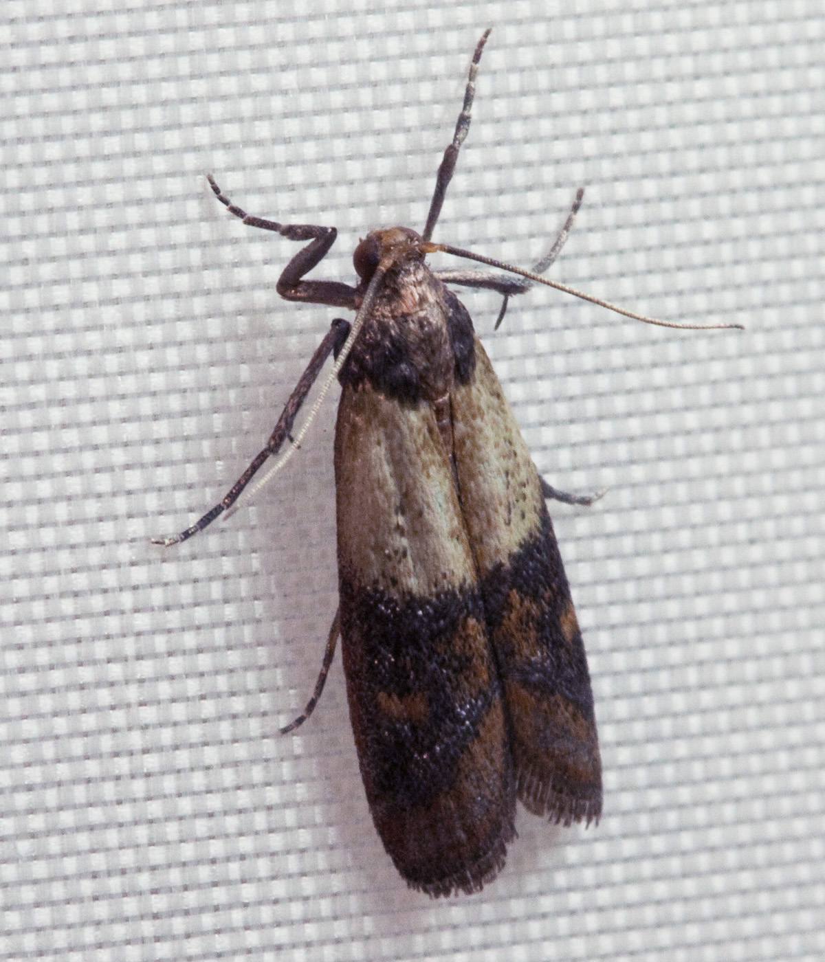 An indianmeal moth (Plodia interpunctella).